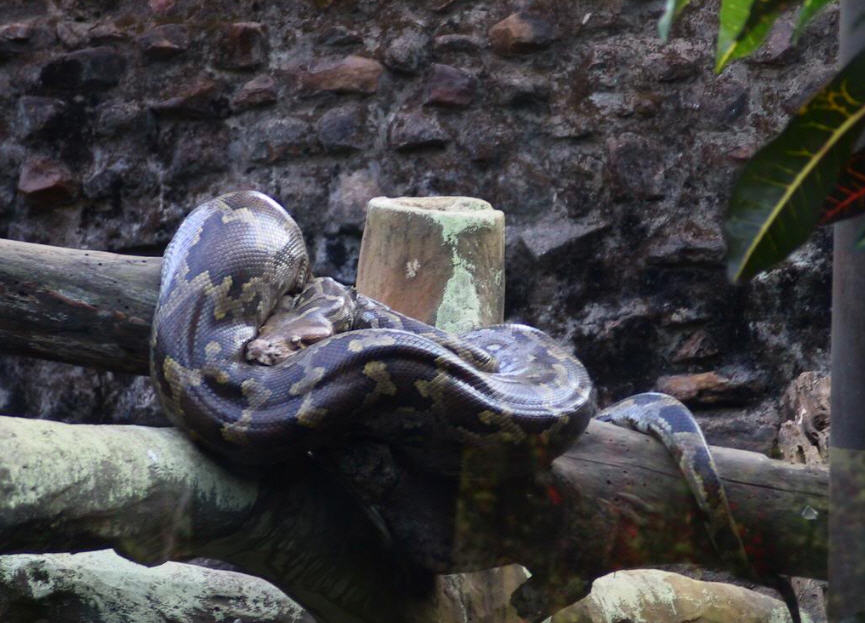 Indian python in Nandankanan Zoological Park in Bhubaneswar, Odisha.